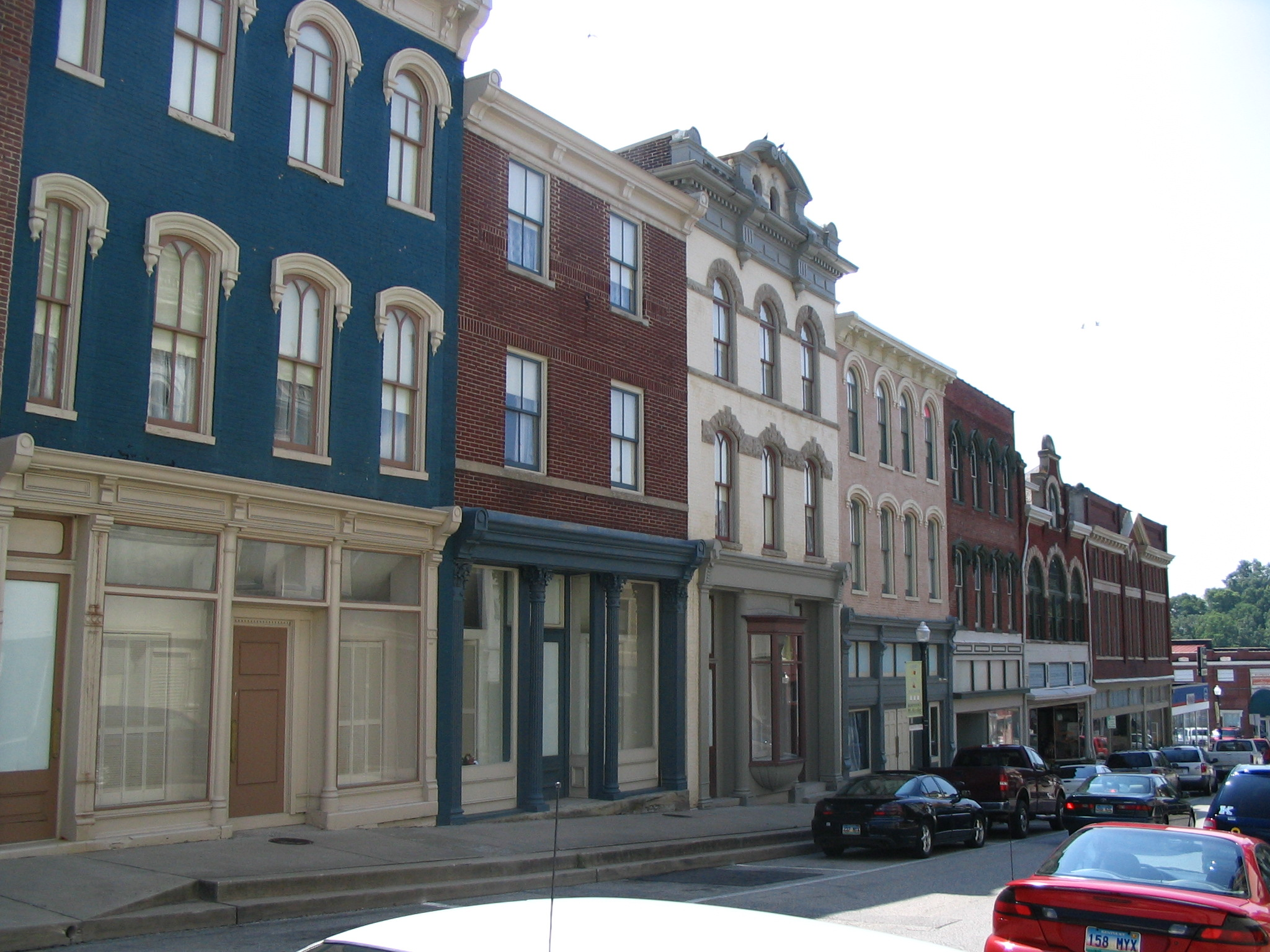 Downtown Mount Sterling, Kentucky, part of the Mount Sterling Commercial District on the National Register of historic Places.